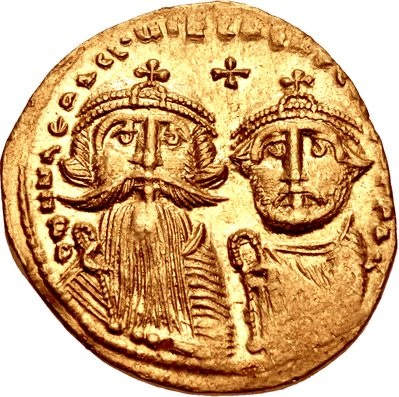 Heraclius, with Heraclius Constantine. 610-641. AV Solidus (20mm, 4.50 g, 6h). Constantinople mint, 10th officina. Crowned and draped facing busts of Heraclius, wearing long beard, and Heraclius Constantine, wearing short beard; cross above.